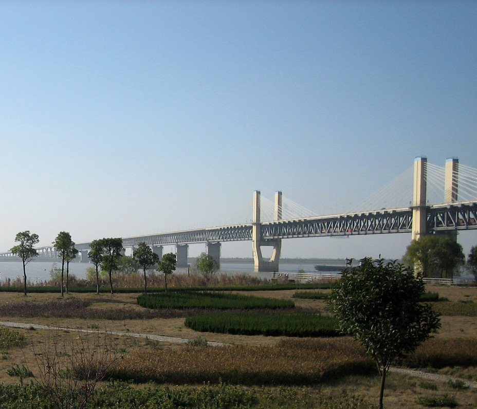 The Wuhu Yangtze River Bridge